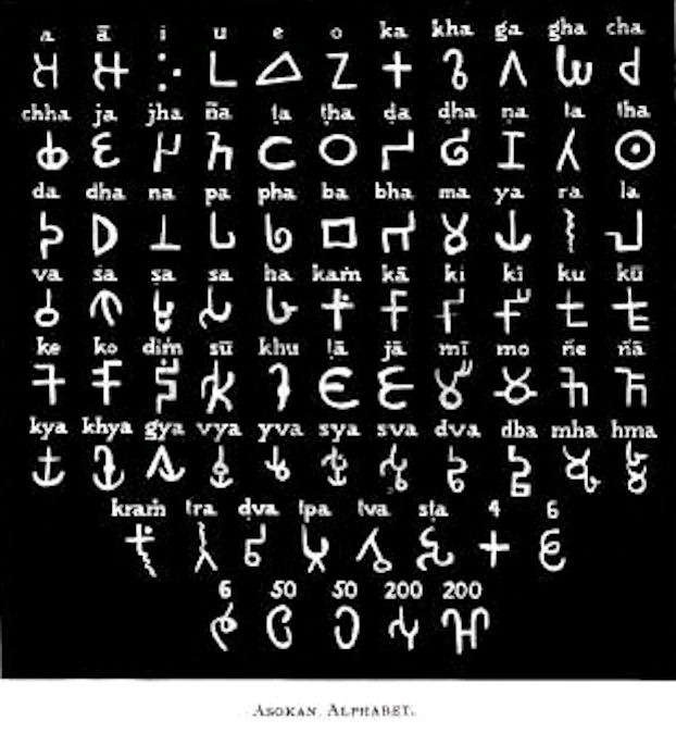 Ashokan alphabet